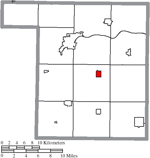 Map of the municipal and township boundaries of Henry County, Ohio, United States, as of the 2000 census, with the location of the village of Malinta highlighted. Township borders are shown only in unincorporated areas in order to differentiate incorporated and unincorporated areas more clearly.